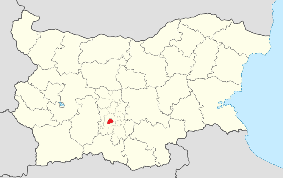 Location map of Plovdiv Municipality within Bulgaria and Plovdiv province